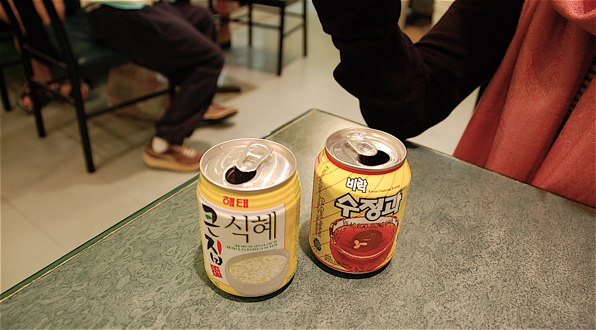 Sikhye (식혜 Korean rice punch) and sujeonggwa (수정과 persimmon punch)